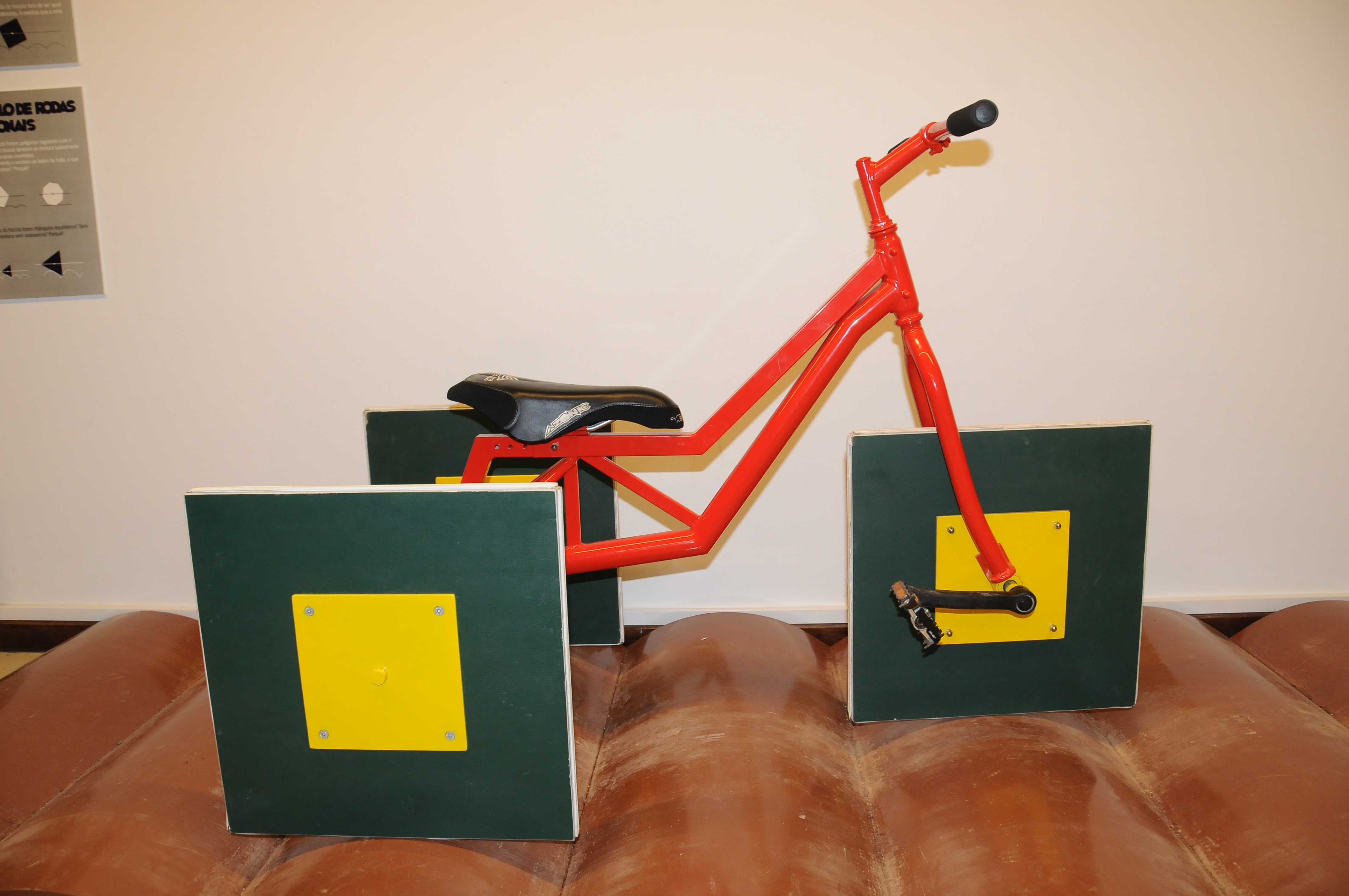 Tricycle with square wheels